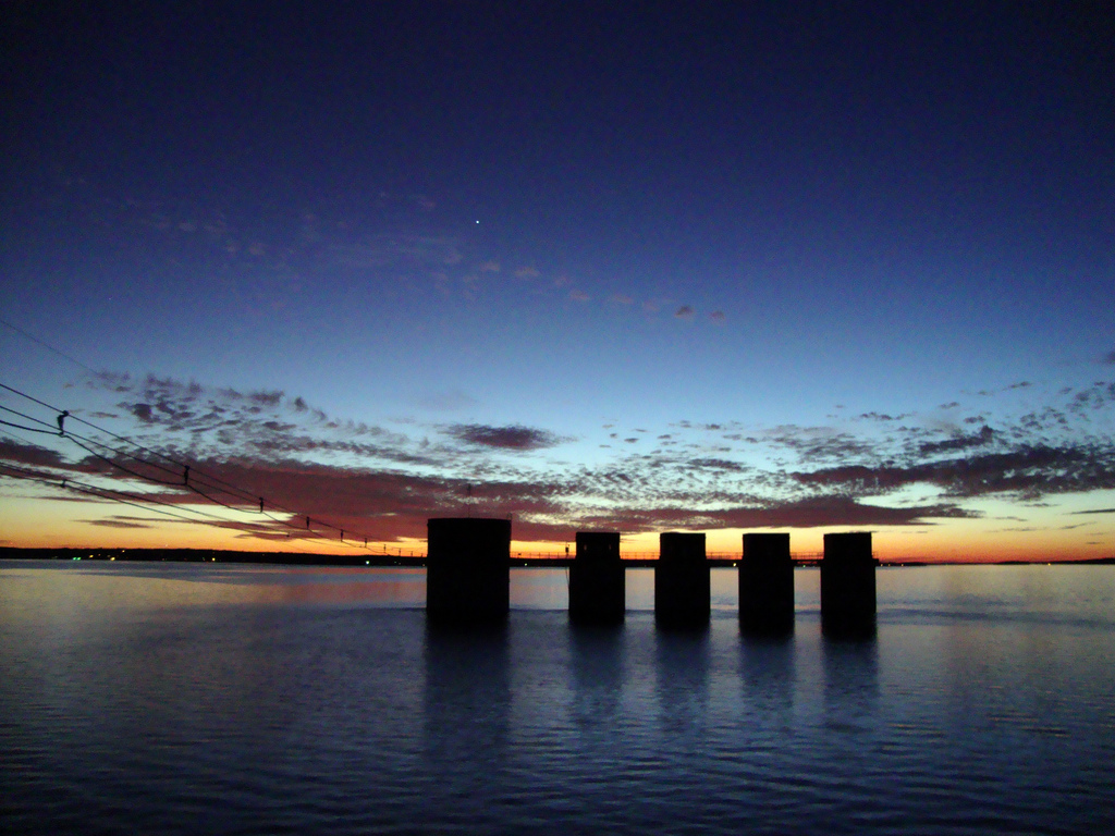 This image is a picture of Lake Murray's sunset. This sunset in this picture is beautiful because of the towers set in the middle. The towers in the image are towers used to house the mechanics that help produce hydroelectric power. The Lake Murray dam produces hydroelectric power.